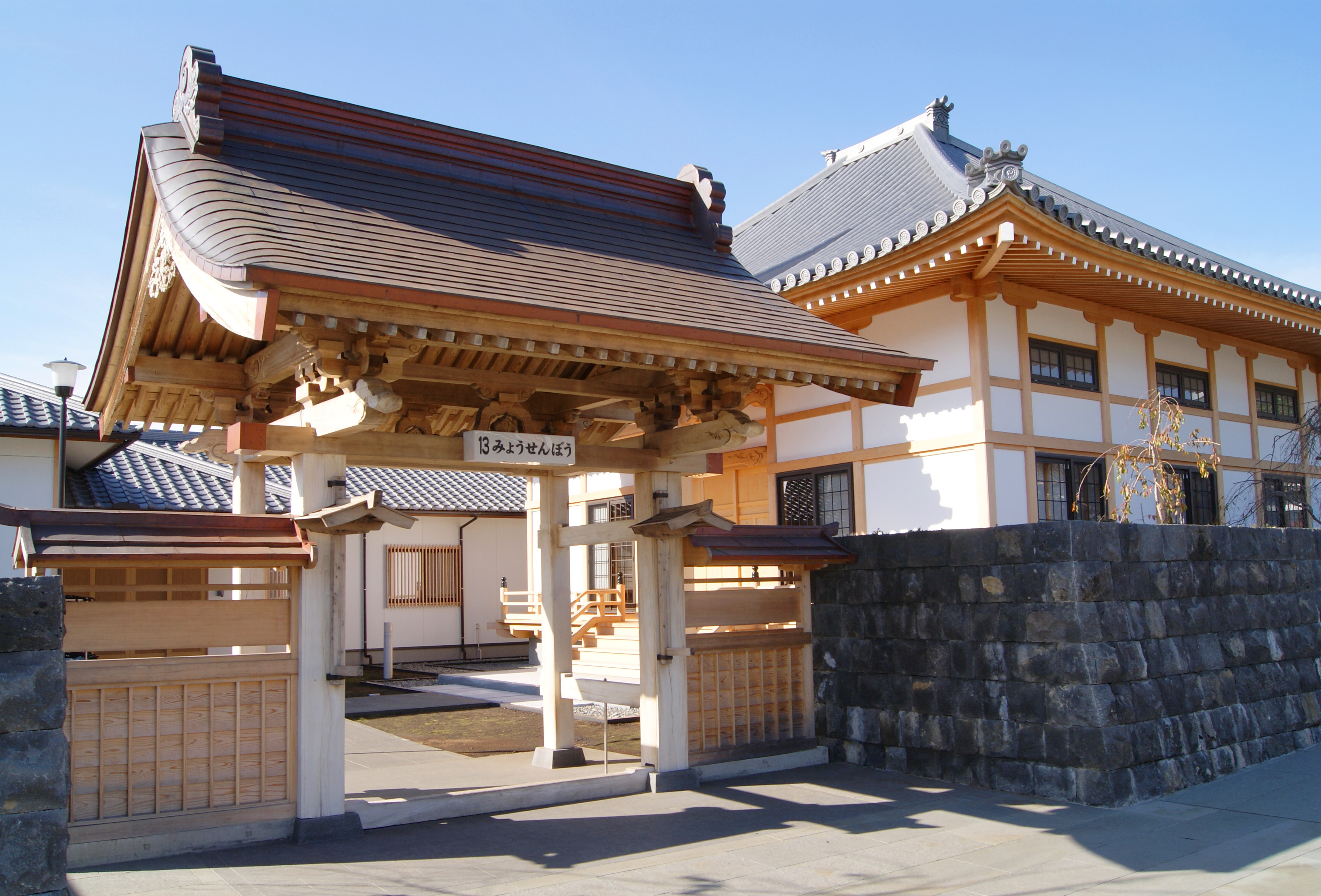 Myosen-bō of Taiseki-ji.jpg